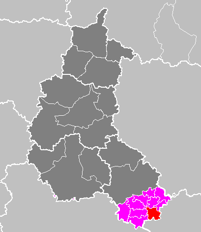 Maps of arrondissements and cantons of France: Arrondissement de Langres - Canton de Fayl-Billot.PNG